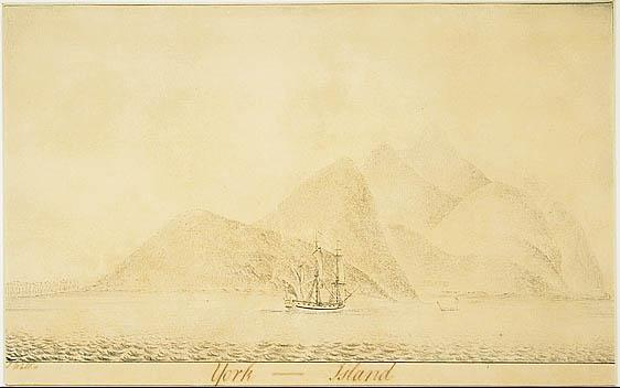 A drawing and wash of York Island or Duke of York Island (now Moorea, French Polynesia, one of the Society Islands), executed during the 1766–1768 voyage of the HMS Dolphin which was captained by Wallis.